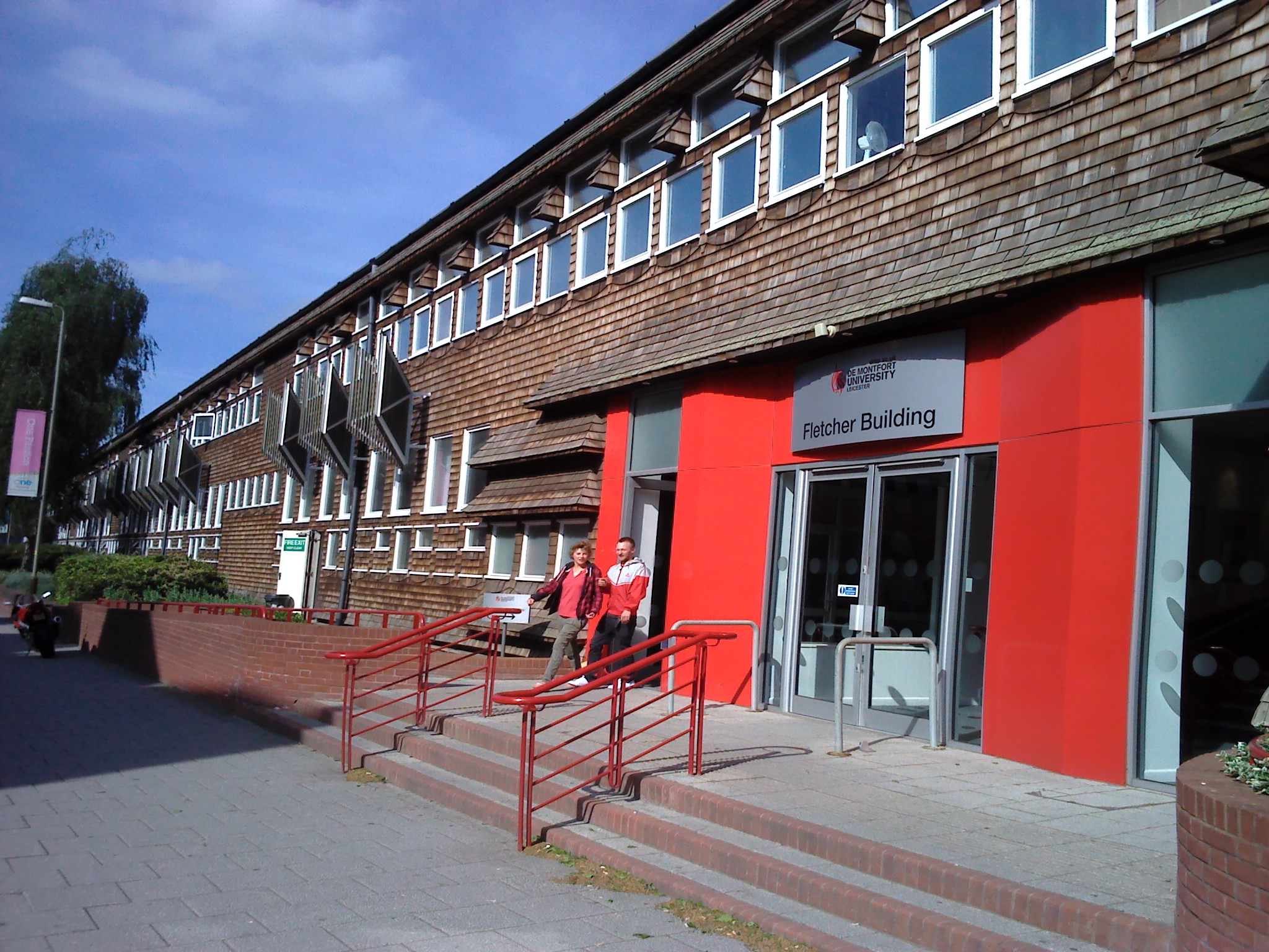 Fletcher Building of De Montfort University.